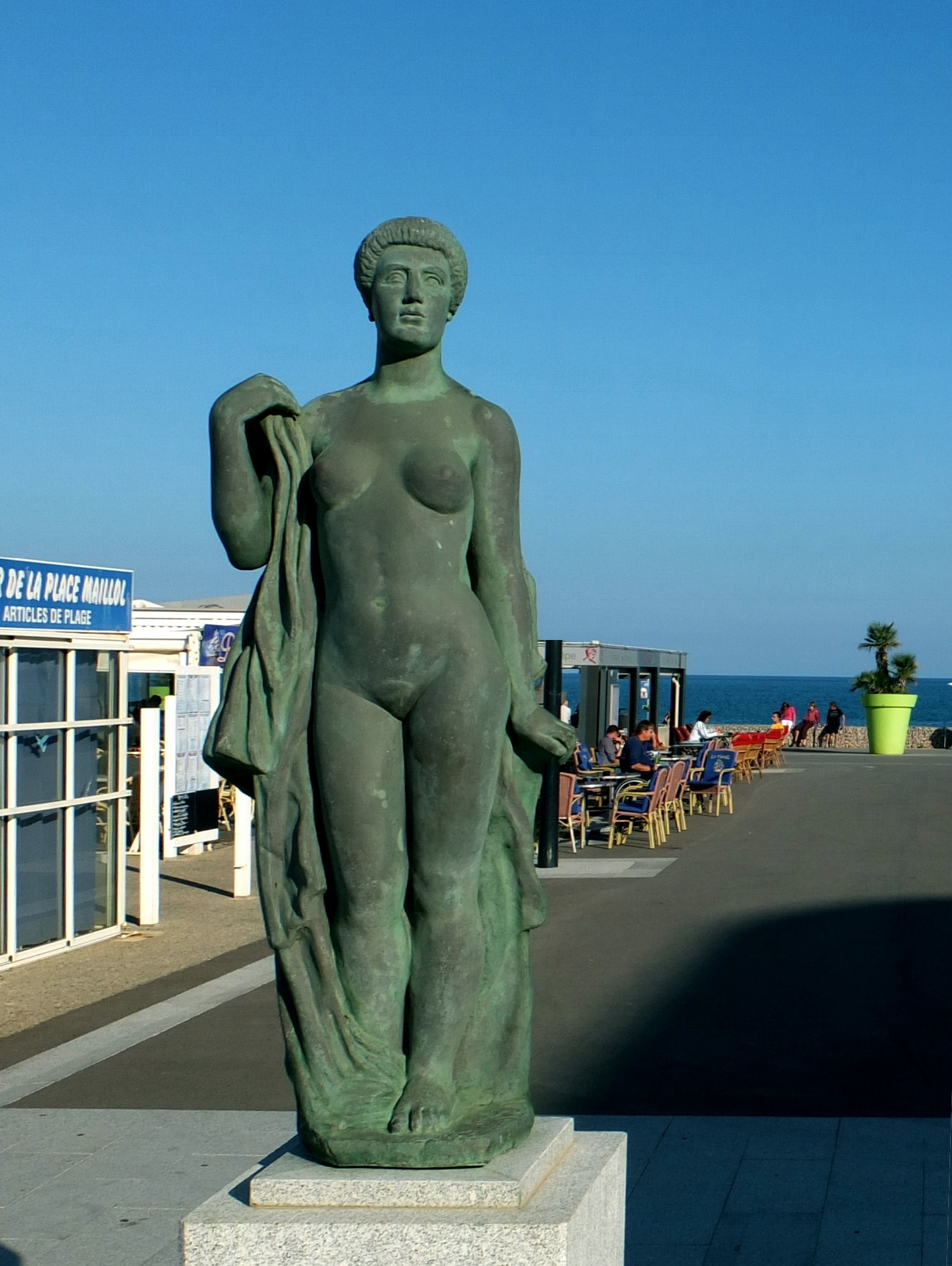 Bronze sculpture La Baigneuse drapée (1921) by Aristide Maillol, Place Maillol, Saint-Cyprien Plage Aristide Maillol (1861–1944) Alternative names Aristide Joseph Bonaventure MaillolDescriptionFrench sculptor, painter, draughtsman and printmakerDate of birth/death 8 December 1861 27 September 1944 Location of birth/death Banyuls-sur-Mer Banyuls-sur-MerWork location Paris (1881-1900), Banyuls-sur-Mer (1893-1944)Authority control : Q153920 VIAF: 14228 ISNI: 0000 0001 0854 4692 ULAN: 500001596 LCCN: n80015568 NLA: 35202089 WorldCat creator QS:P170,Q153920